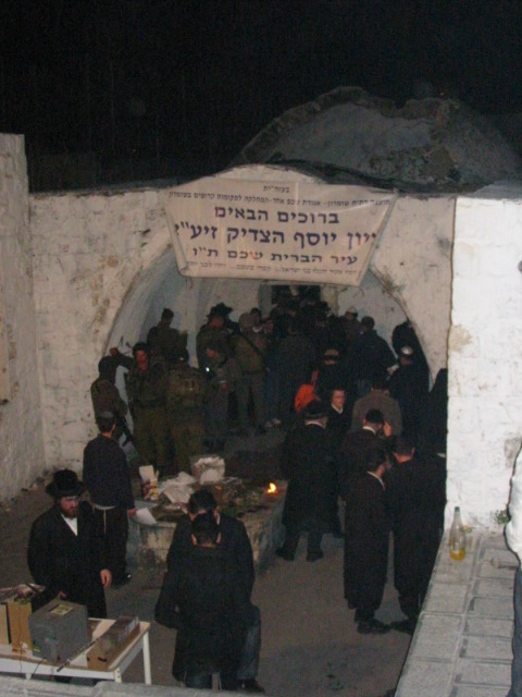 Pilgrimage to Joseph's Tomb, Shechem with destroyed dome.